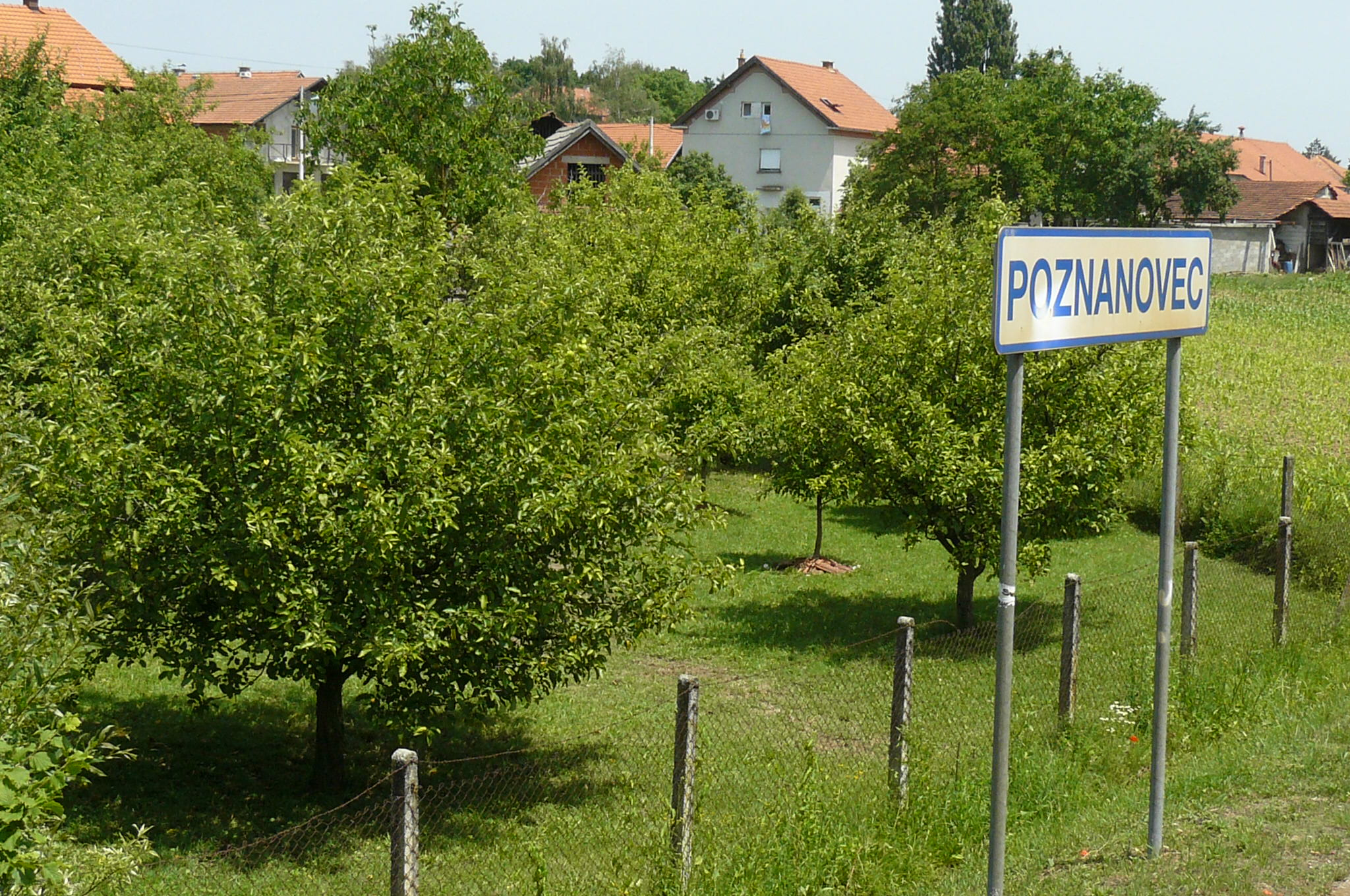 Poznanovec - Hrvatska.